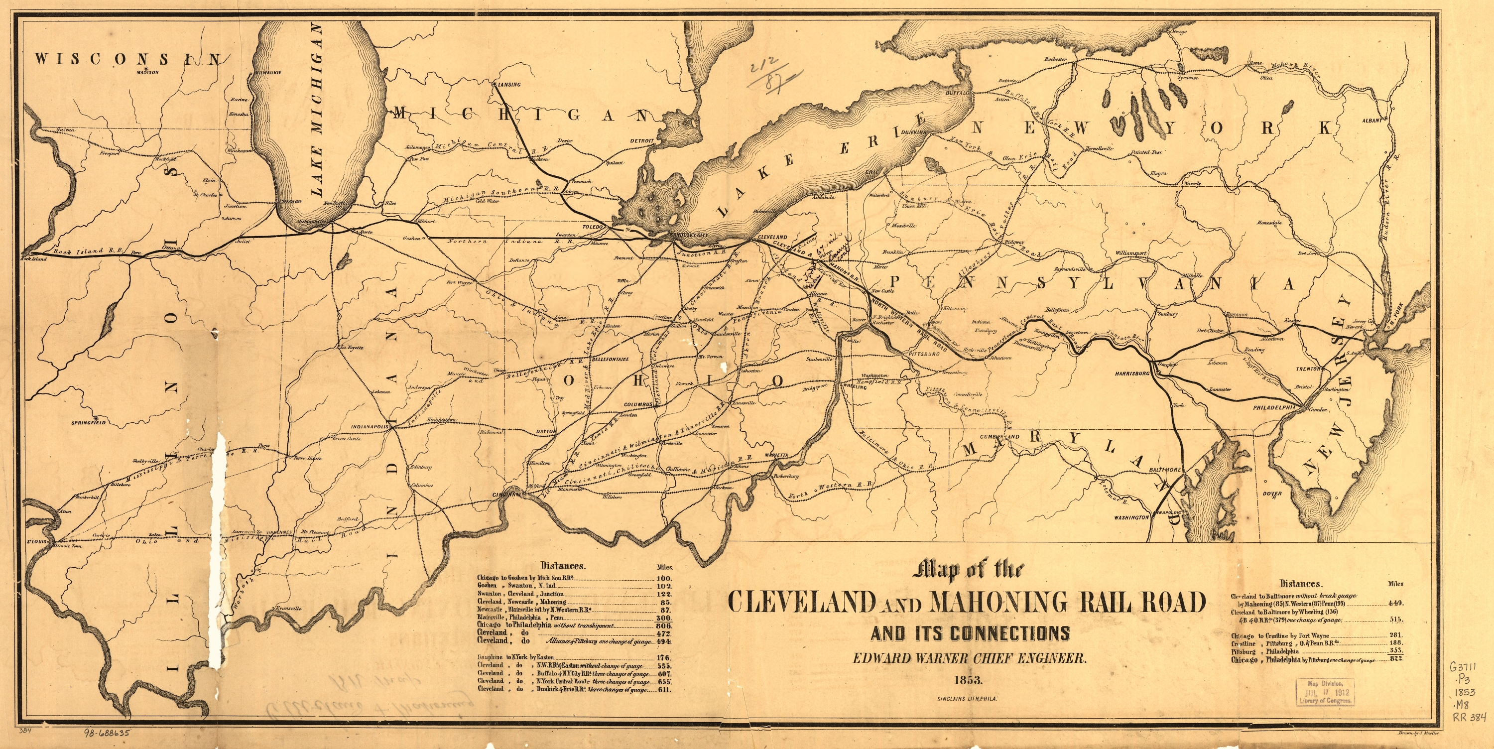 (From LOC) Sketch map of the north-central and middle Atlantic states showing the railroad network, major cities, rivers, and state boundaries. Tables of distances appear on both sides of title. Chartered on February 22, 1848. Resized and compressed. No other alterations.